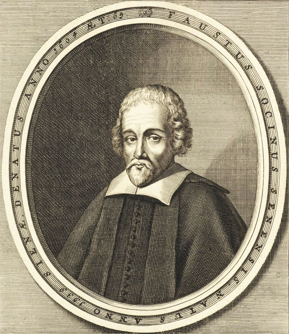 Fausto Paolo Sozzini